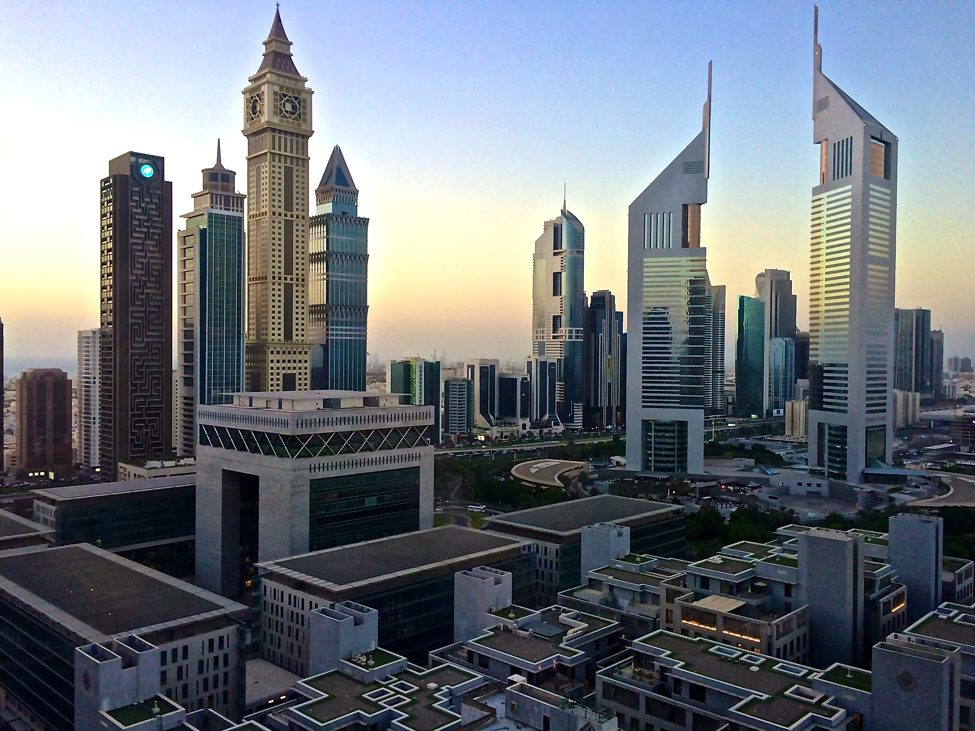 Emirates Tower in Dubai as seen from the apartment complex Sky Gardens in front of Dubai International Financial Center (DIFC)